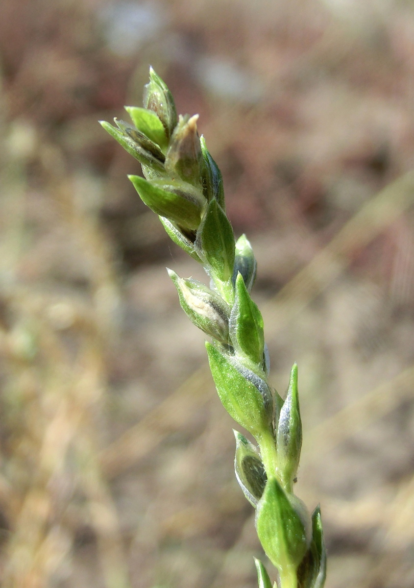 Corispermum leptopterum. Sand dune at Darmstadt-Eberstadt, Hessia, Germany.